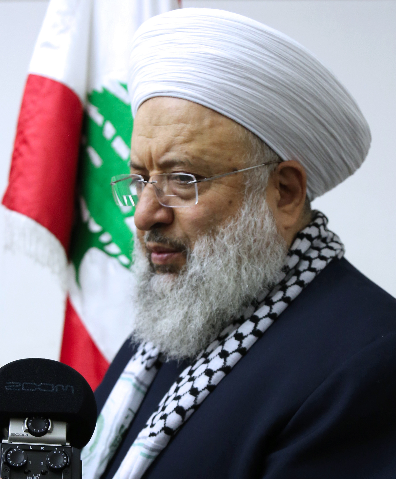 Maher Hammoud, Imam of the Al-Quds Mosque in Sidon and Secretary-General of the Union of Resistance Scholars